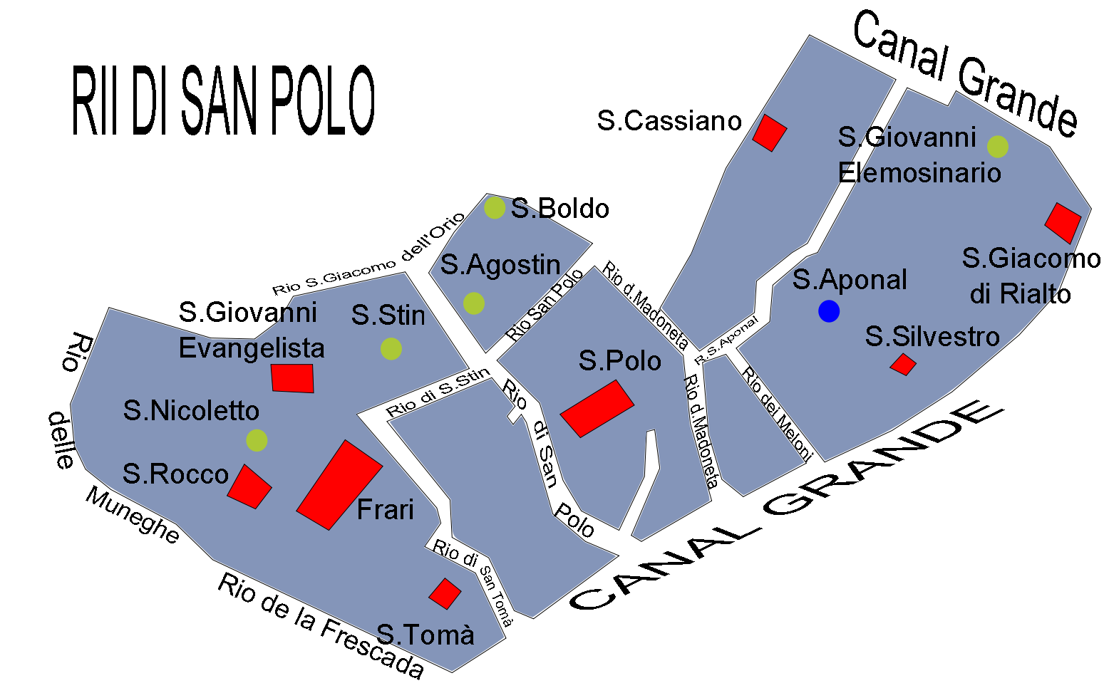 Map of churches in San Polo - Venice